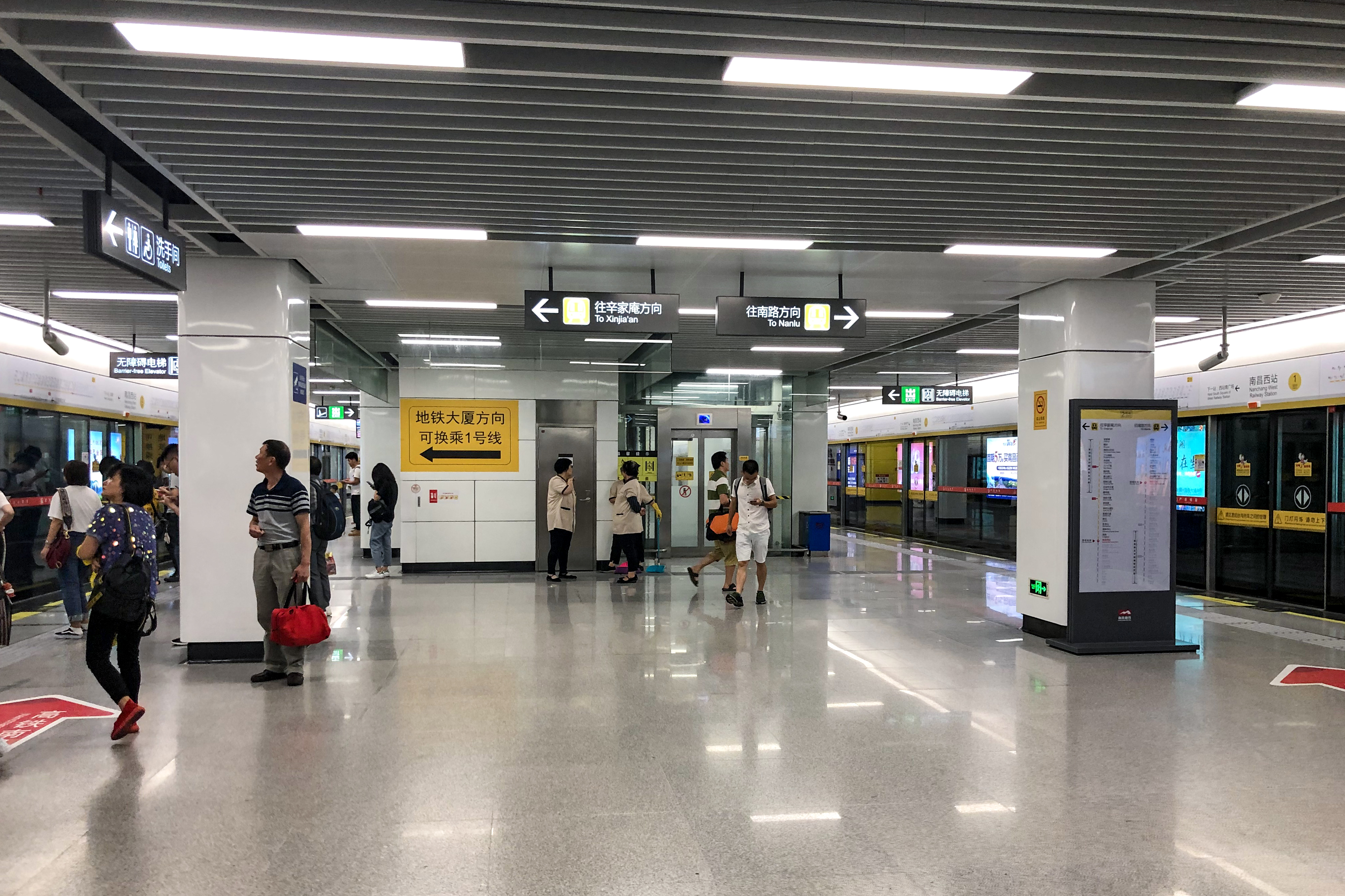 The metro portal of Nanchang and whole Jiangxi, isn't it?